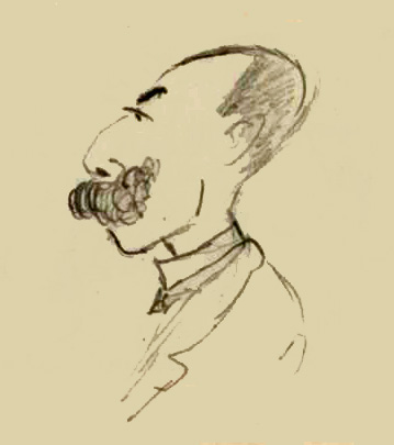 André Messager - caricature in crayon by Gabriel Fauré.